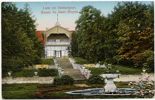 Leetse Manor